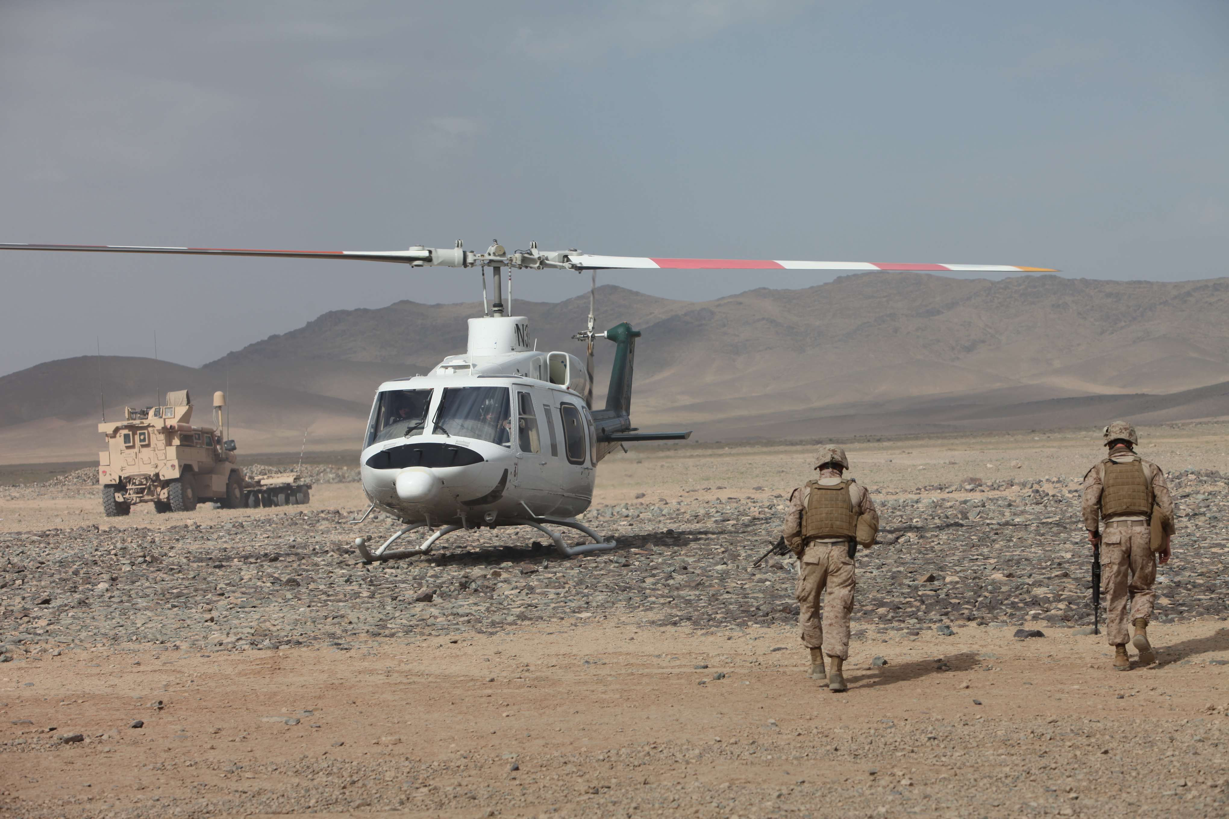 Lance Cpl. Brent Wars (left) and Lance Cpl Justin MacRae (right), landing support specialists with Combat Logistics Battalion 4, 1st Marine Logistics Group (Forward), approach a Bell 214 helicopter after guiding it to the landing zone at Forward Operating Base Now Zad, April 9. As part of the Arrival/Delivery Airfield Control Group, the two Marines are responsible for all aerial travel of passengers and cargo at the FOB.